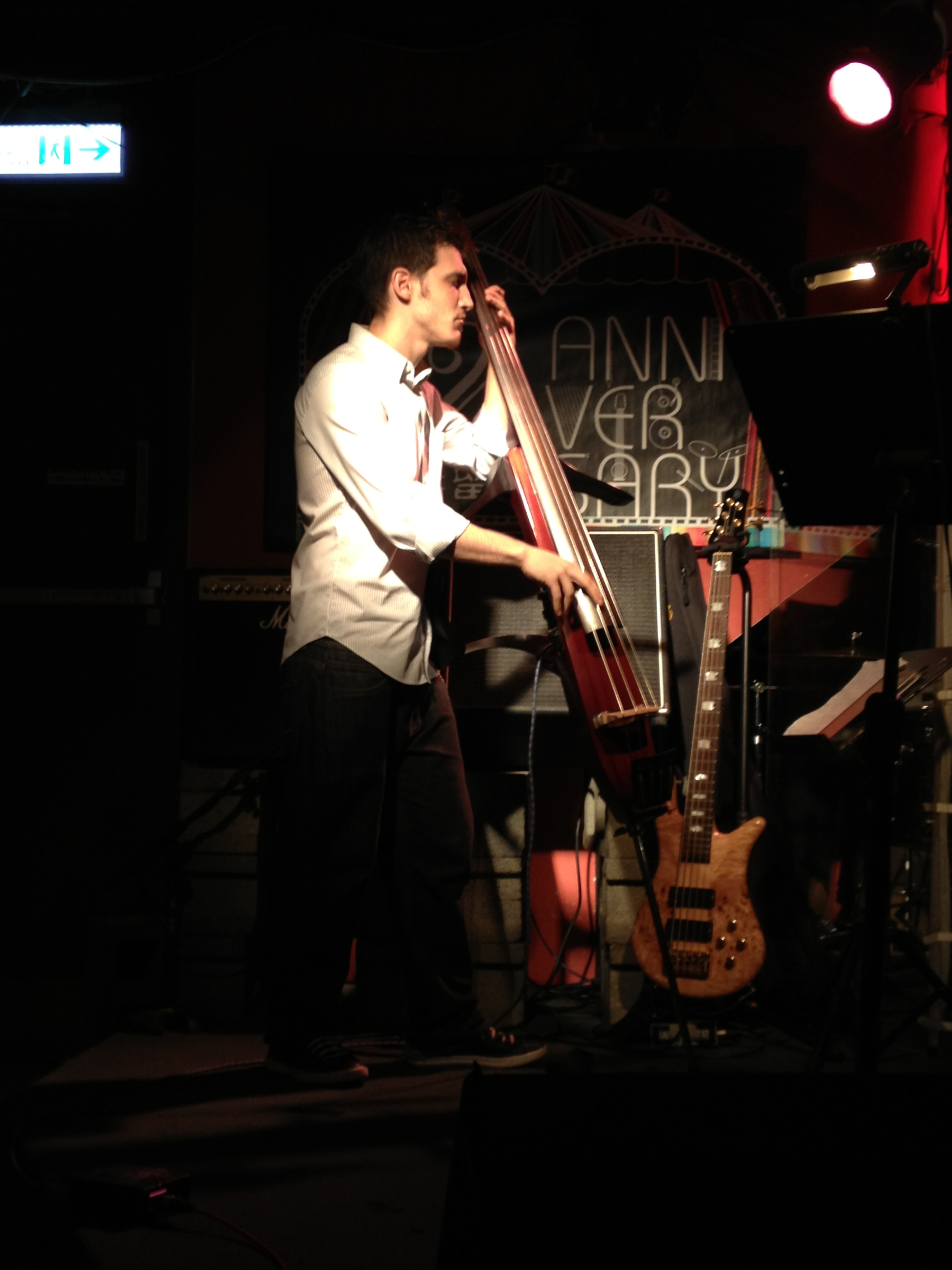 Lautaro Bellucca at Riverside Café Taipei, "Shiny & Norma VS DFM Jazz Club", Aug 31 2013.